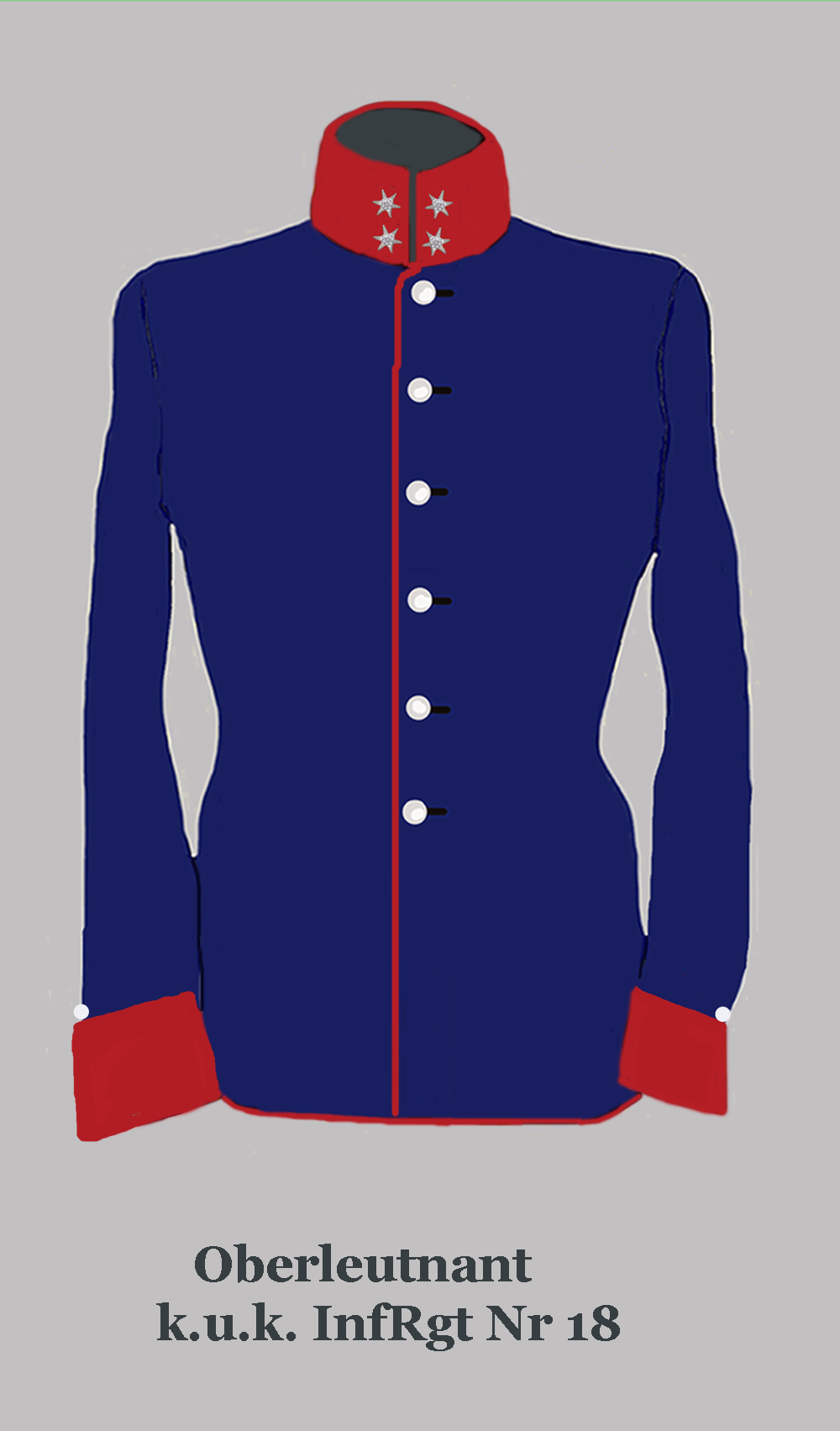 1st Lieutenant of the Austria-Hungarian infantry (German style tunic with dark-red regimental identification color and white buttons)